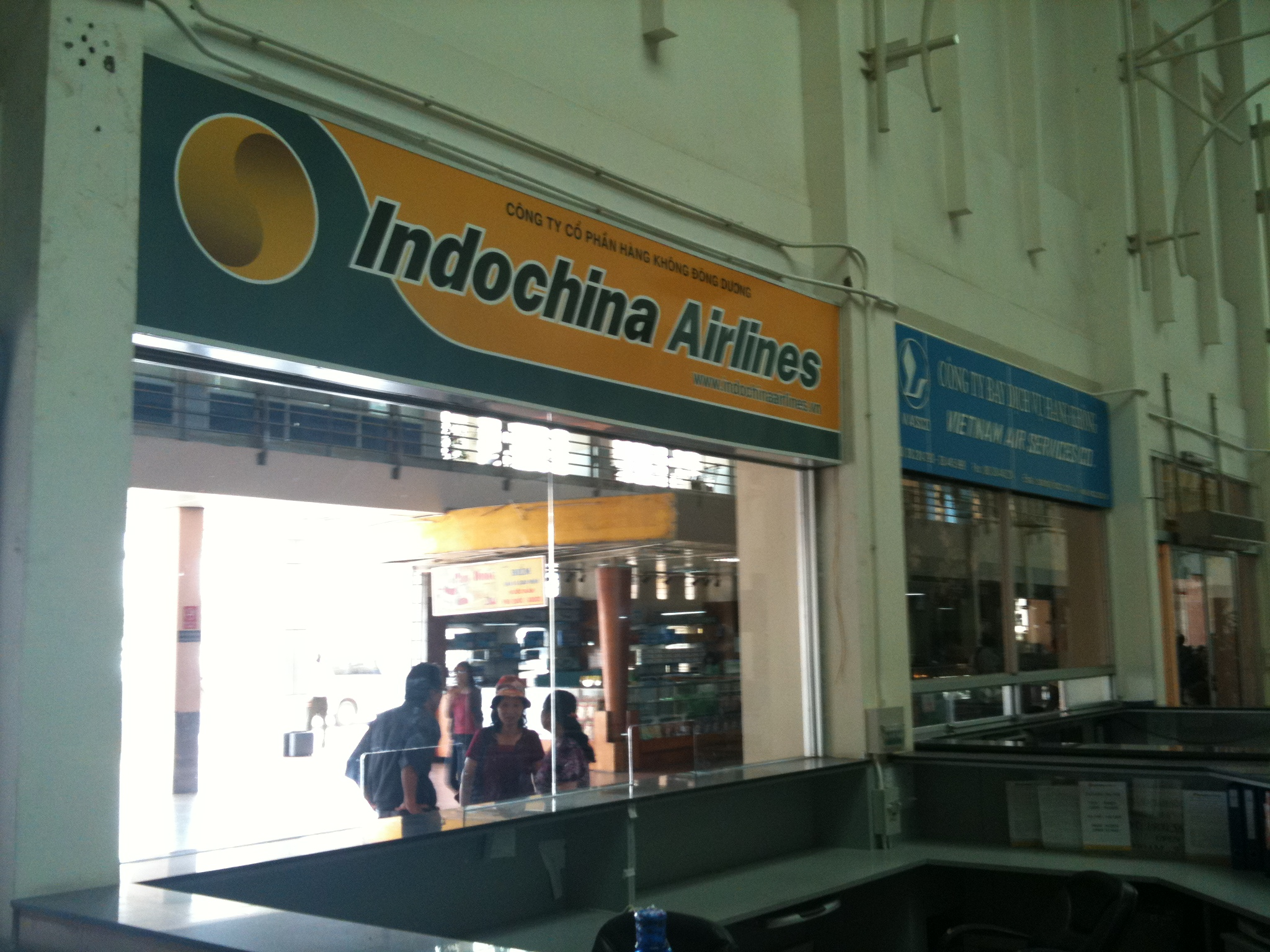 The abandoned Indochina Airlines service counter at Tan Son Nhat Int'l Airport, Ho Chi Minh City.